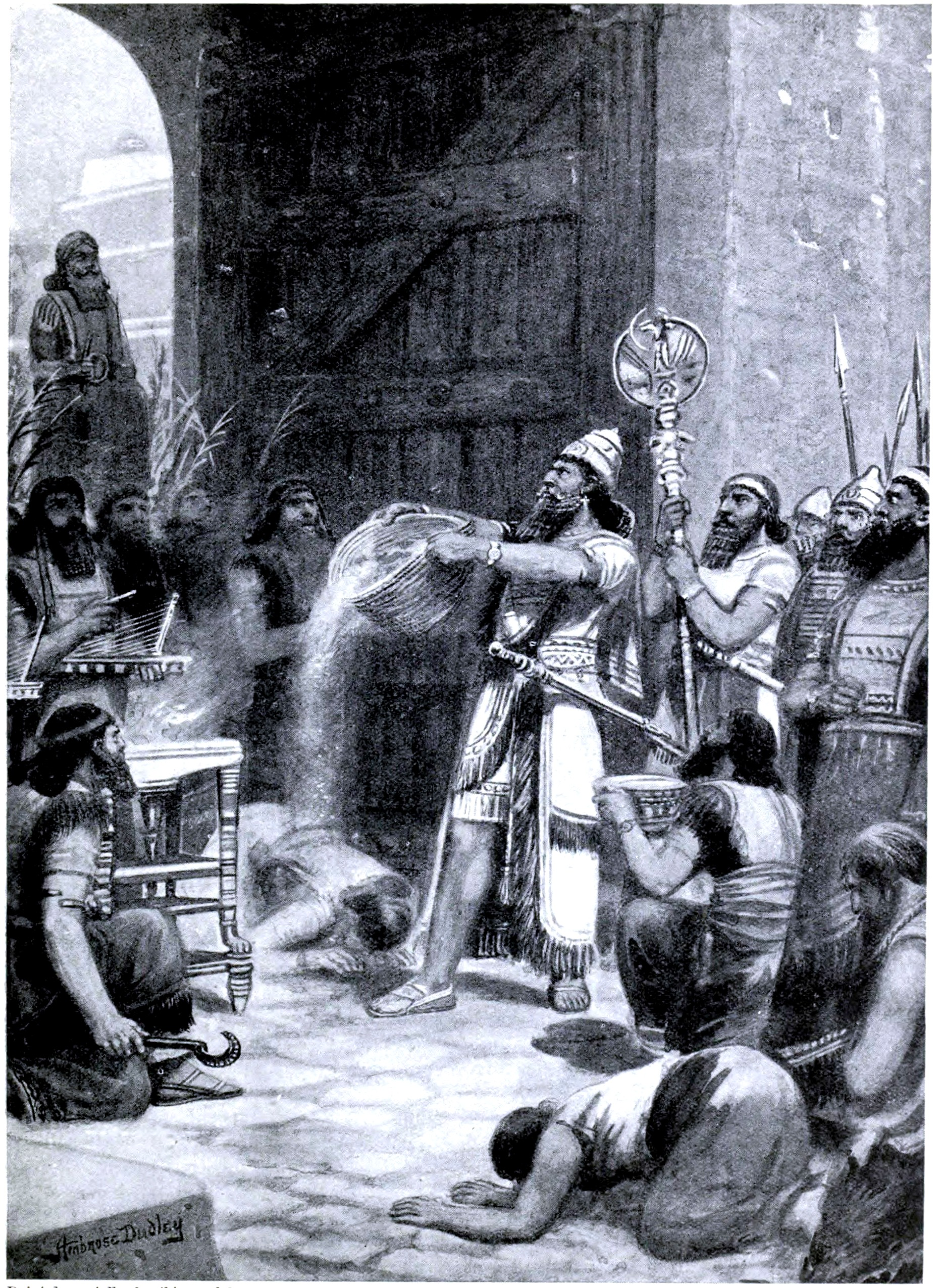 Shalmaneser I pours out the dust of Arina before his god Ashur. From Credit: Shalmaneser I pours out the dust of Arina before his god Ashur, illustration from 'Hutchinson's History of the Nations' (litho), Dudley, Ambrose (fl. 1920s) / Private Collection / The Stapleton Collection / The Bridgeman Art Library STC 357956 Image number: Shalmaneser I pours out the dust of Arina before his god Ashur, illustration from 'Hutchinson's History of the Nations' (litho) Title: Dudley, Ambrose (fl. 1920s) Primary creator: British Nationality: Private Collection Location: The Stapleton Collection Credit: lithograph Medium: Shalmaneser I (1274-1235 BC) King of Assyria; after capturing the mountain fortress of Arina, which had revolted against the god Ashur, he razed it to the ground, and after gathering it's dust he poured it out at the Gate of Ashur; Description: 20th (C20th) Date: Vertical Orientation